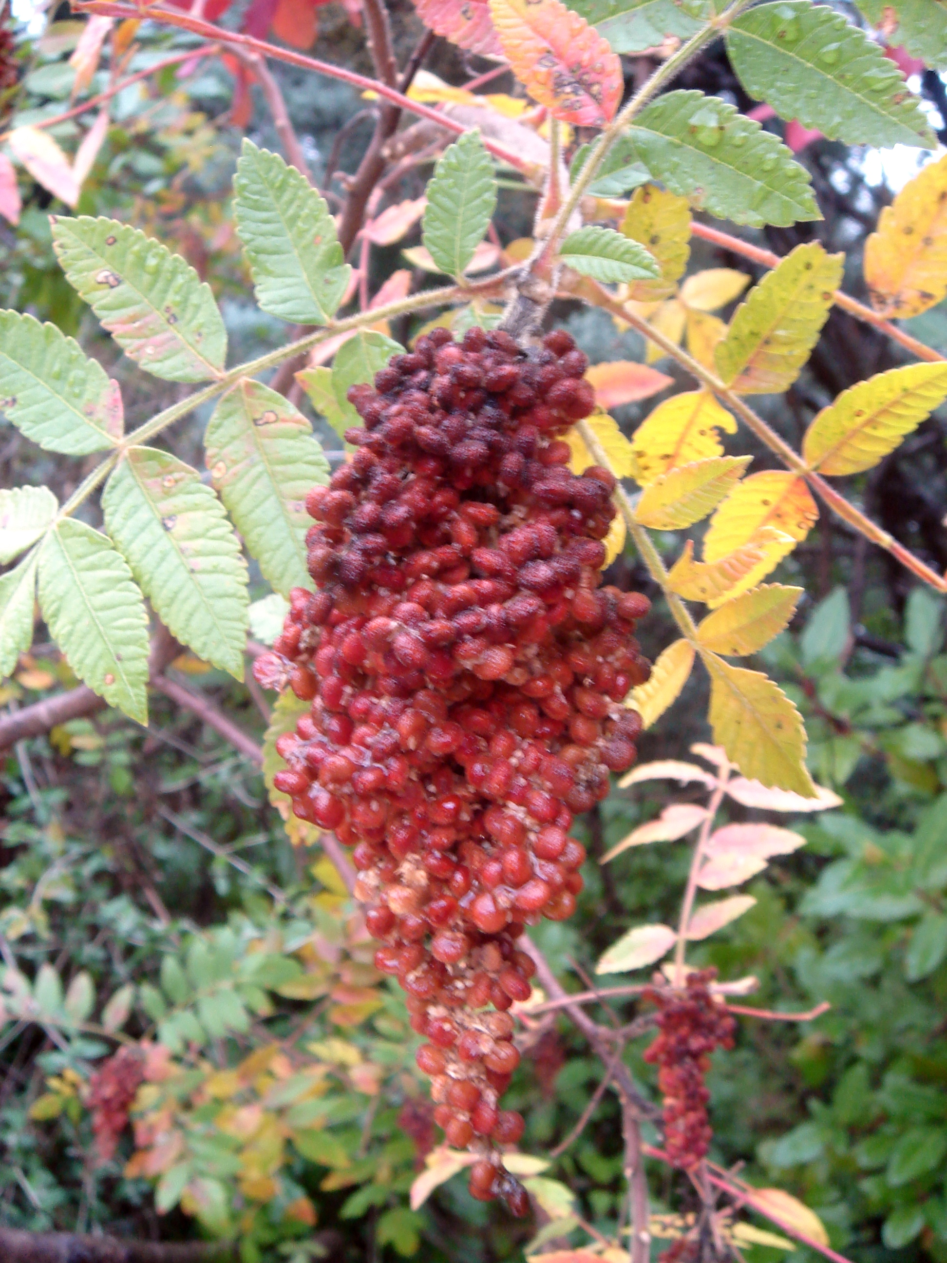 BourrinOman